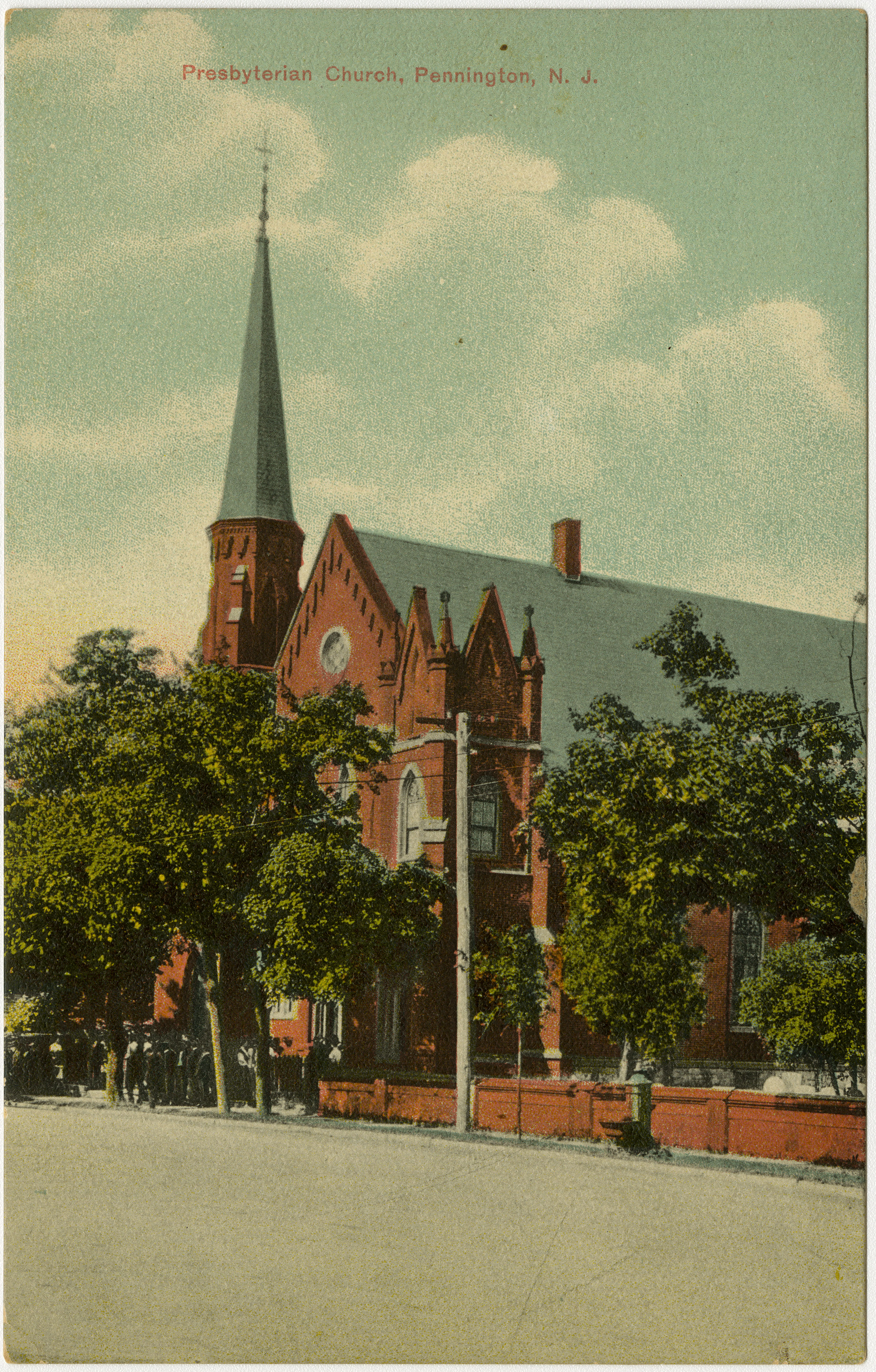 Presbyterian church in Pennington, New Jersey from a pre-1923 postcard From RG 428, Postcard Collection, Presbyterian Historical Society, Philadelphia, Pennsylvania.